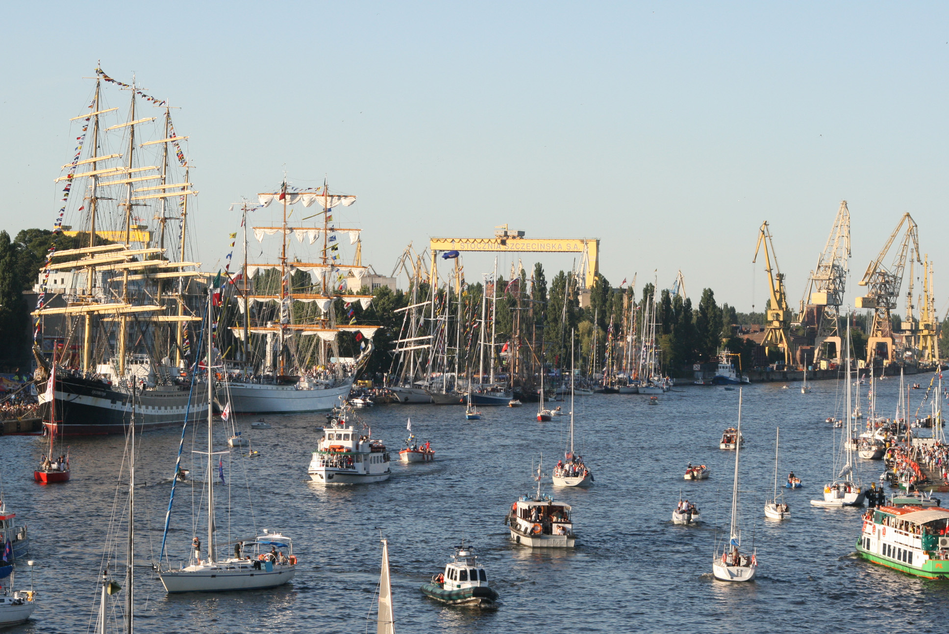 The Tall Ships' Races, Szczecin 2007